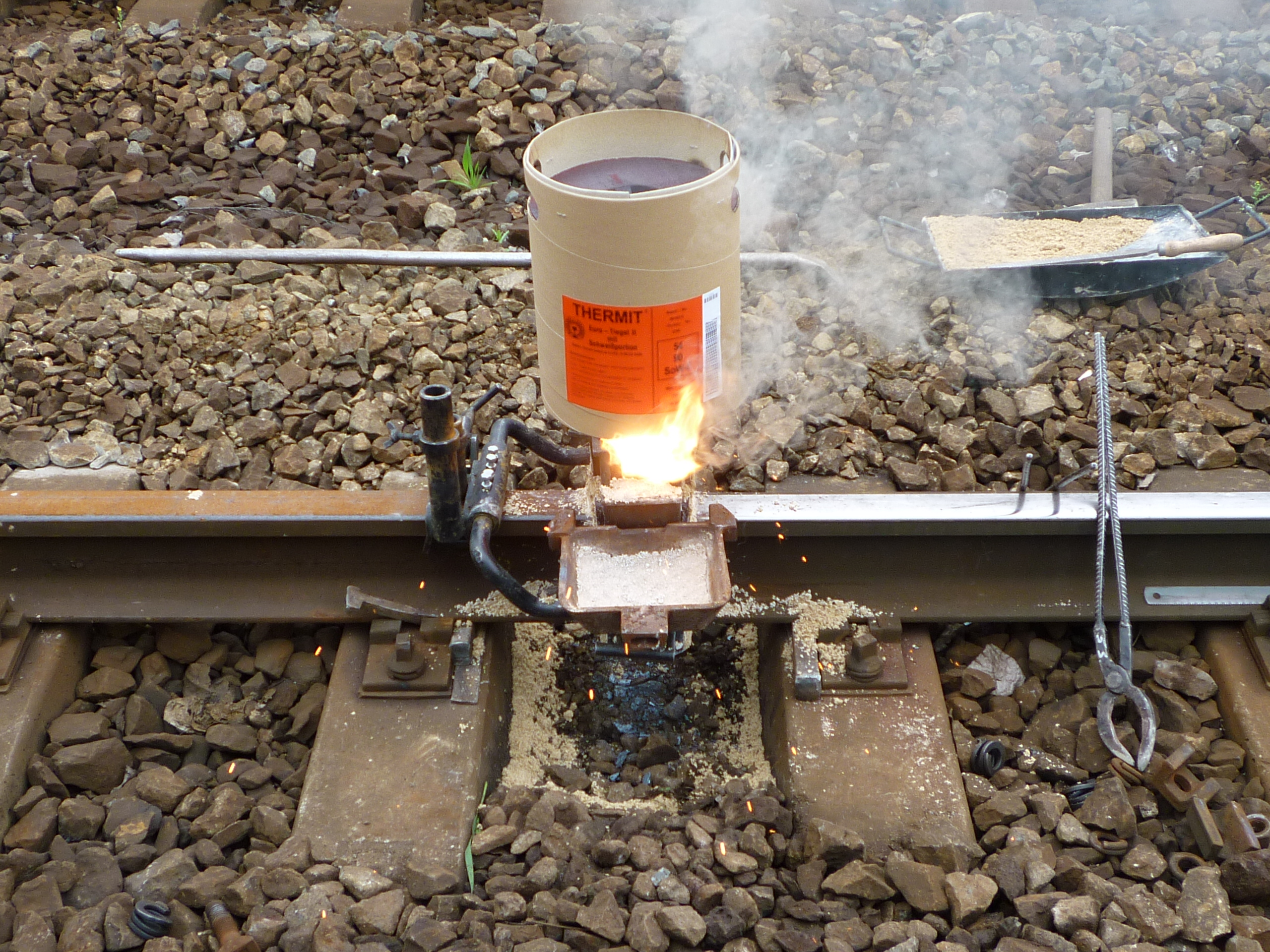 Thermite rail welding.